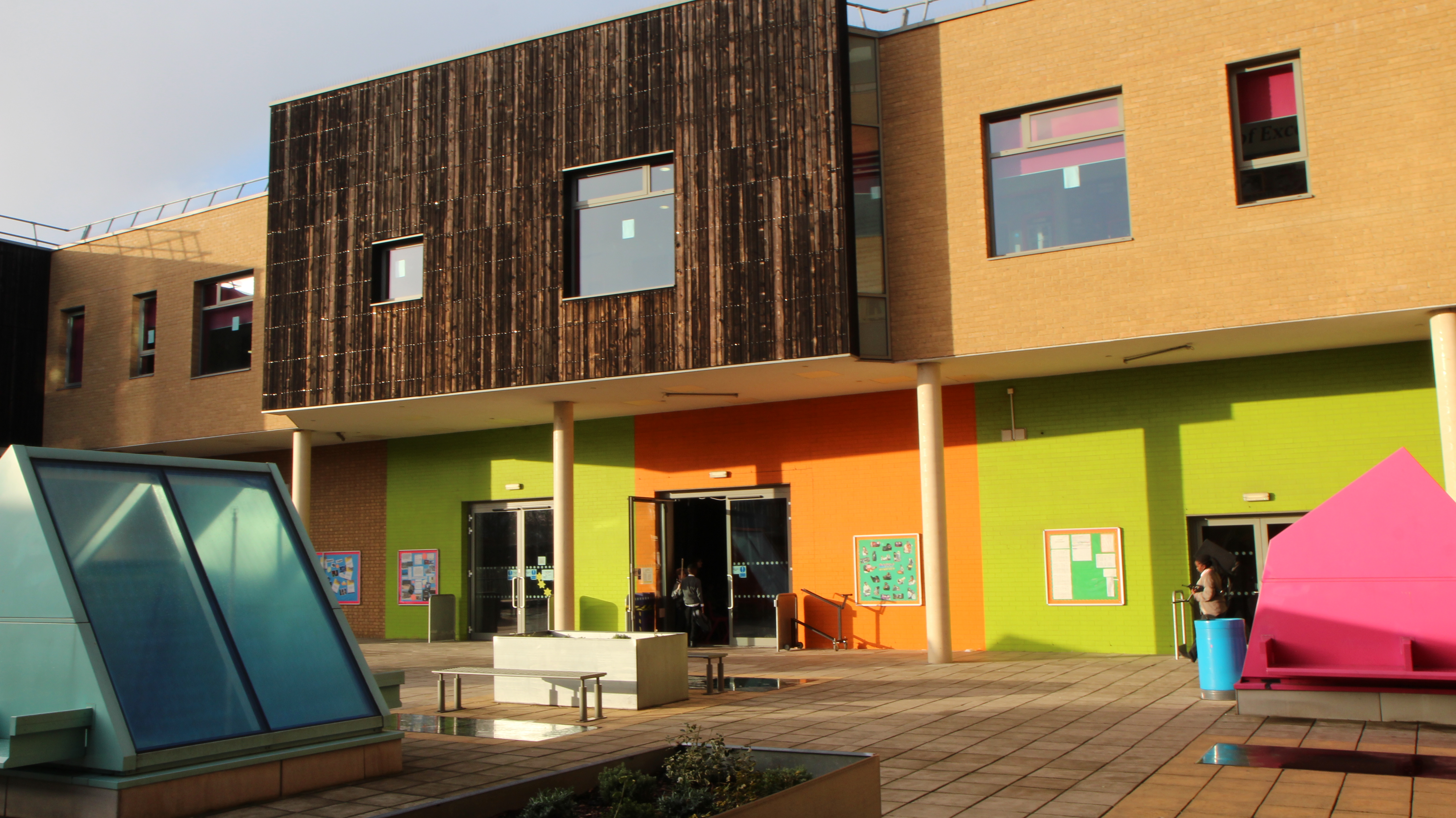 EGA Piazza